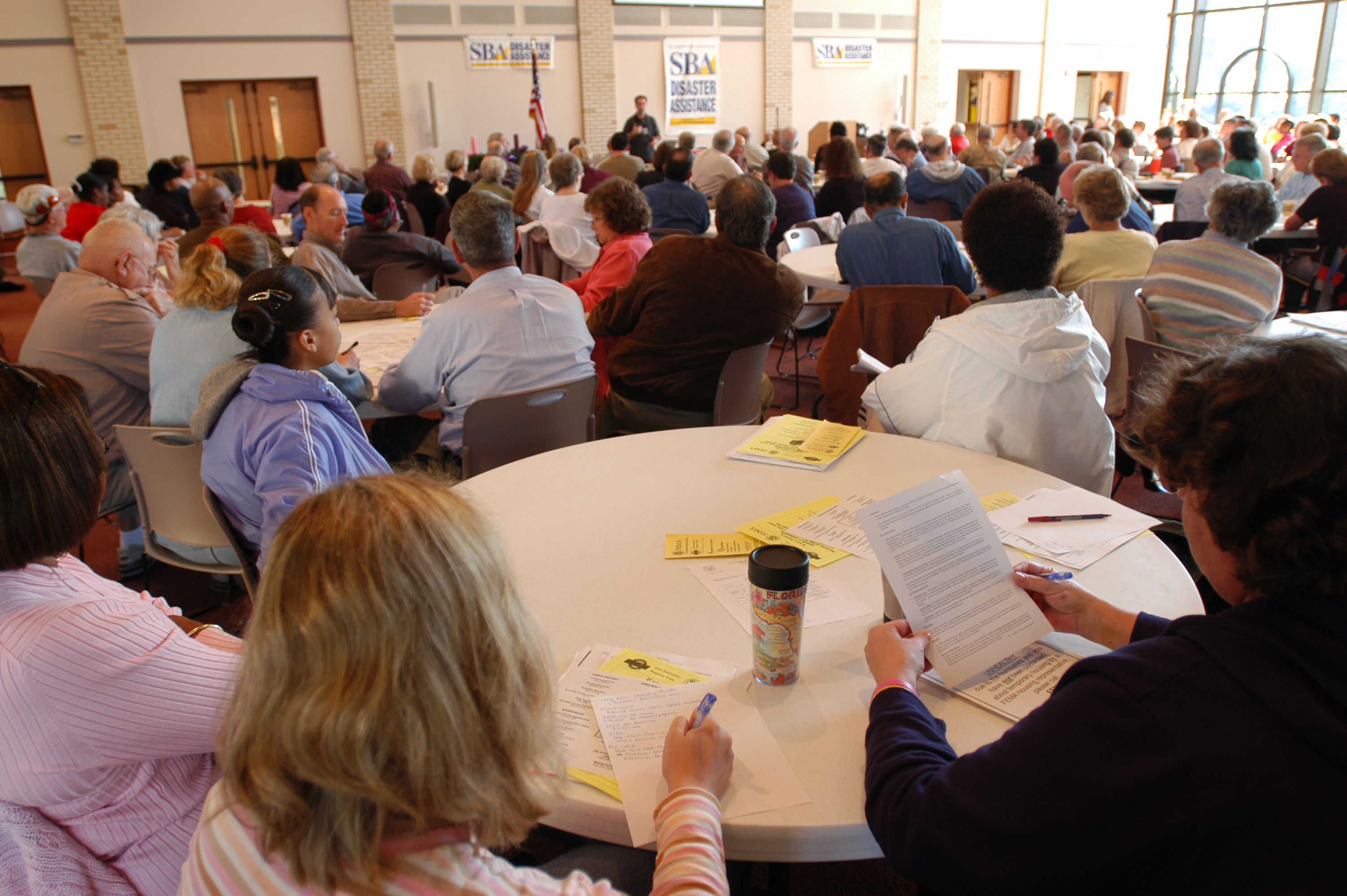 Pensacola, FL, December 11, 2004 -- A volunteer takes notes at a training session to learn how to help residents affected by Hurricane Ivan fill out Small Business Administration loan applications. FEMA Photo/Mark Wolfe